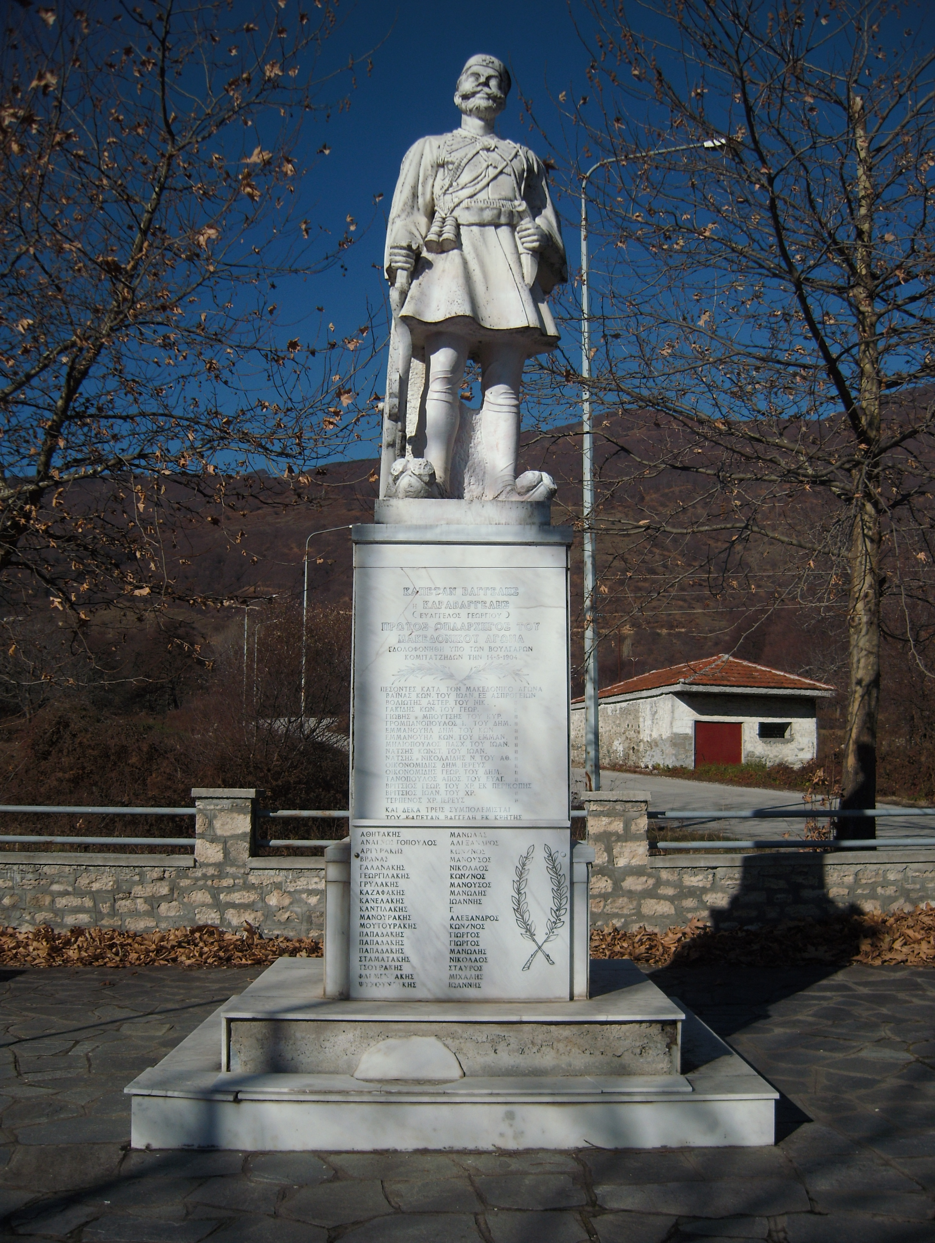 Neveska / Nymfaio